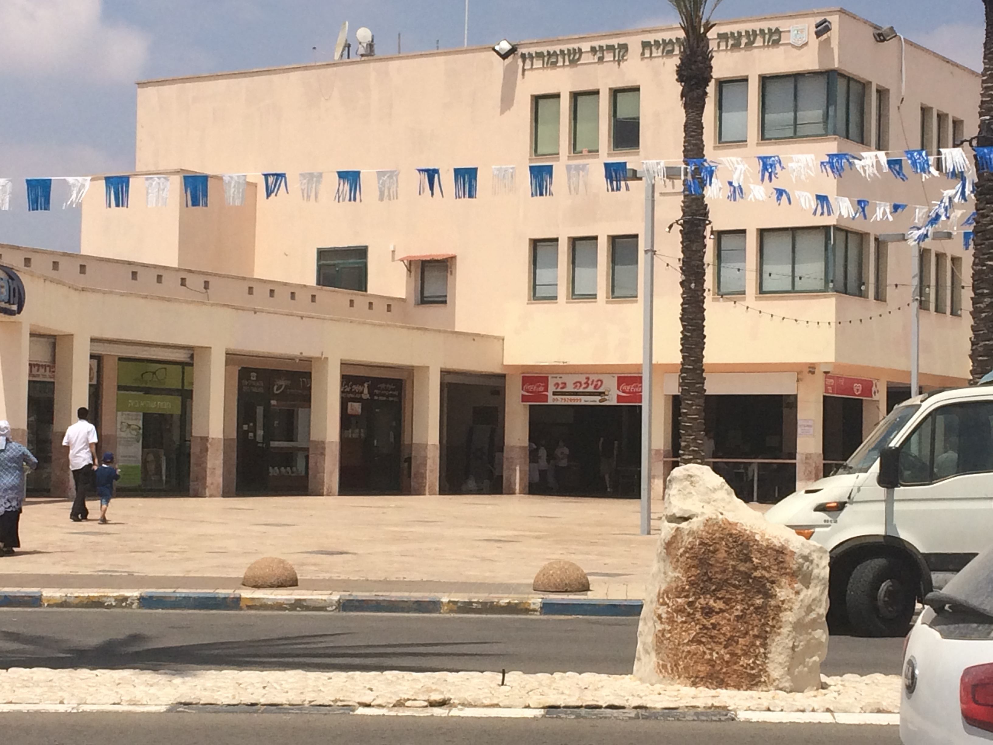 Karnei Shomron Mall, located in Karnei Shomron, West Bank